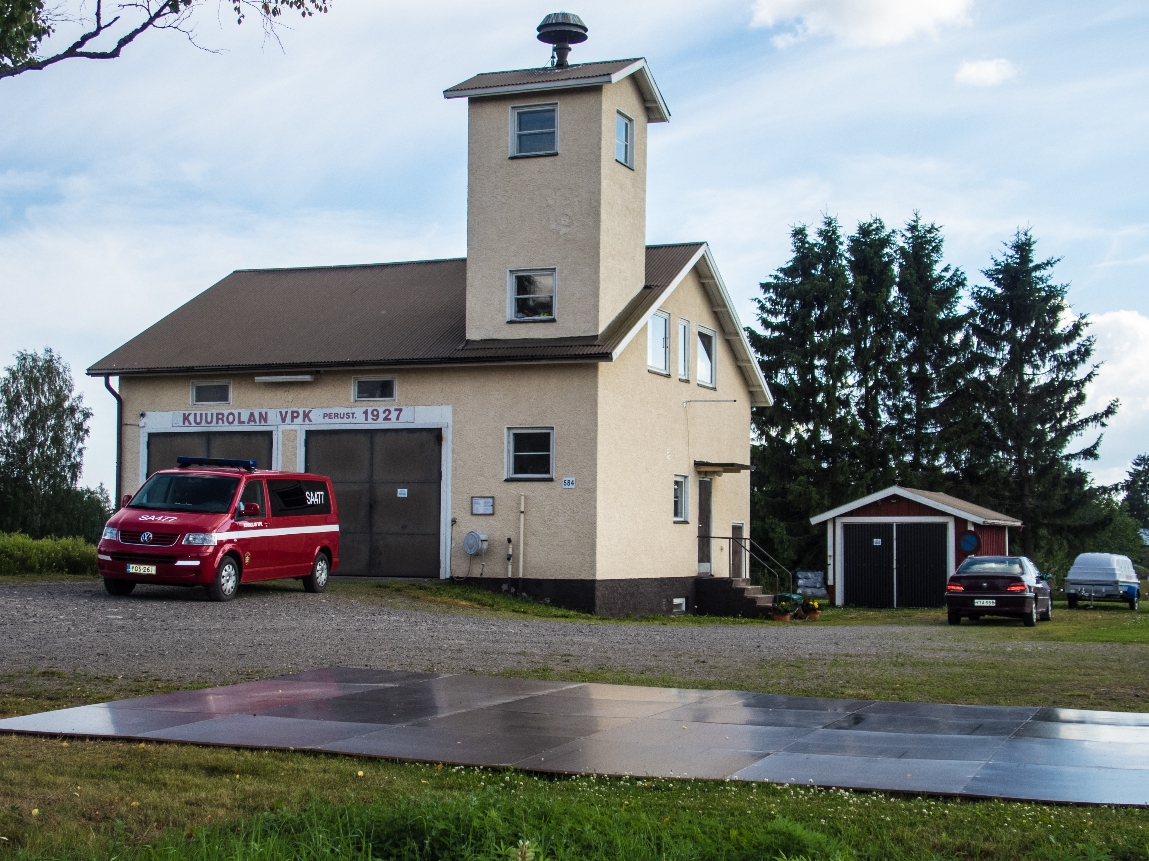 Voluntary fire brigade in the Kuurola village, Kokemäki, Finland.